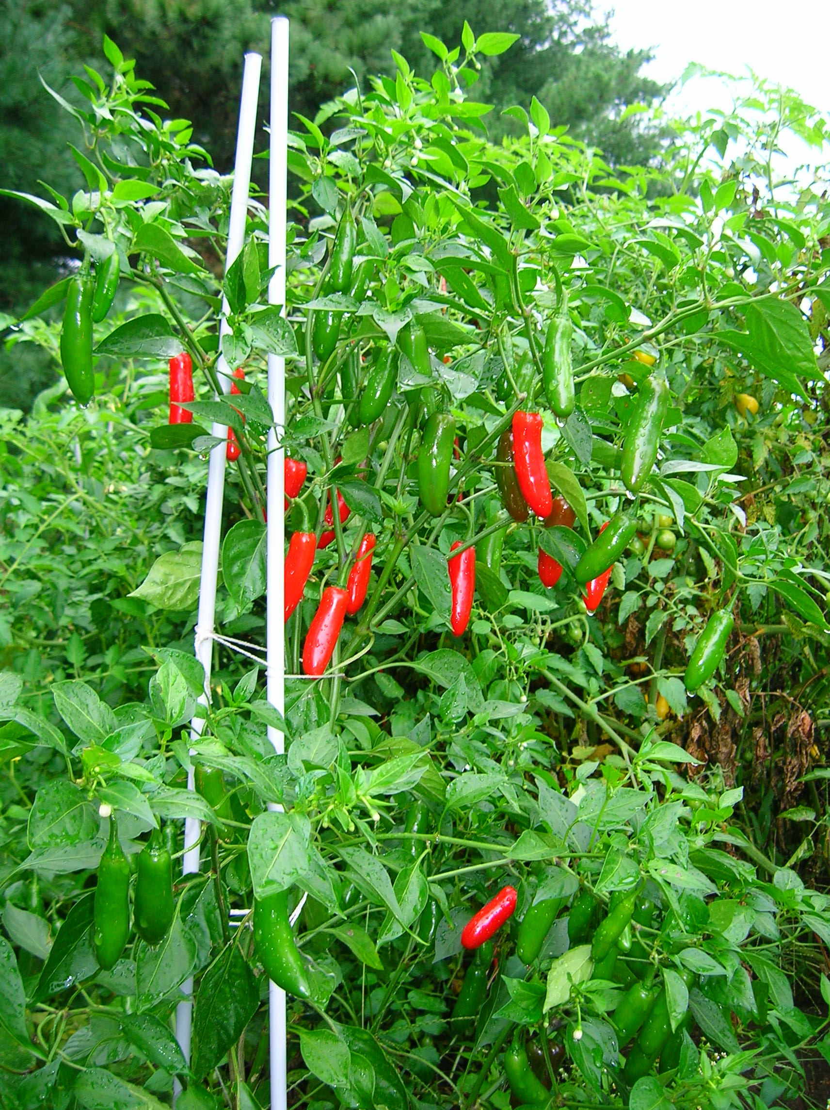 An explosion of colors on the Serrano pepper plant.